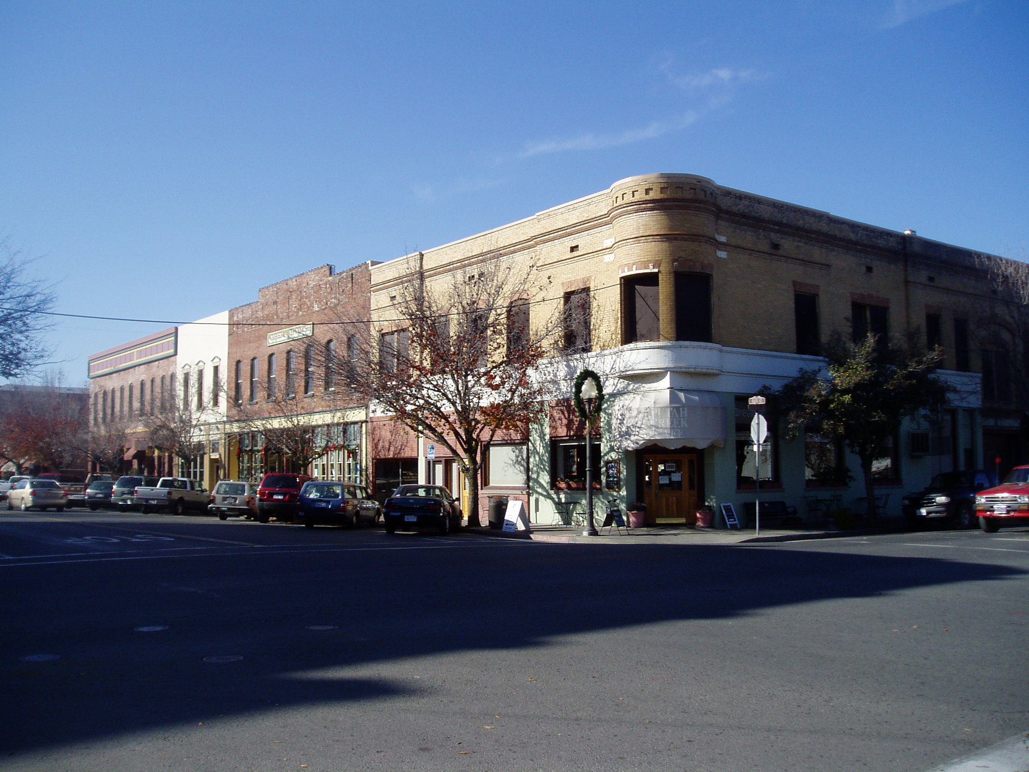 City of Winters, California